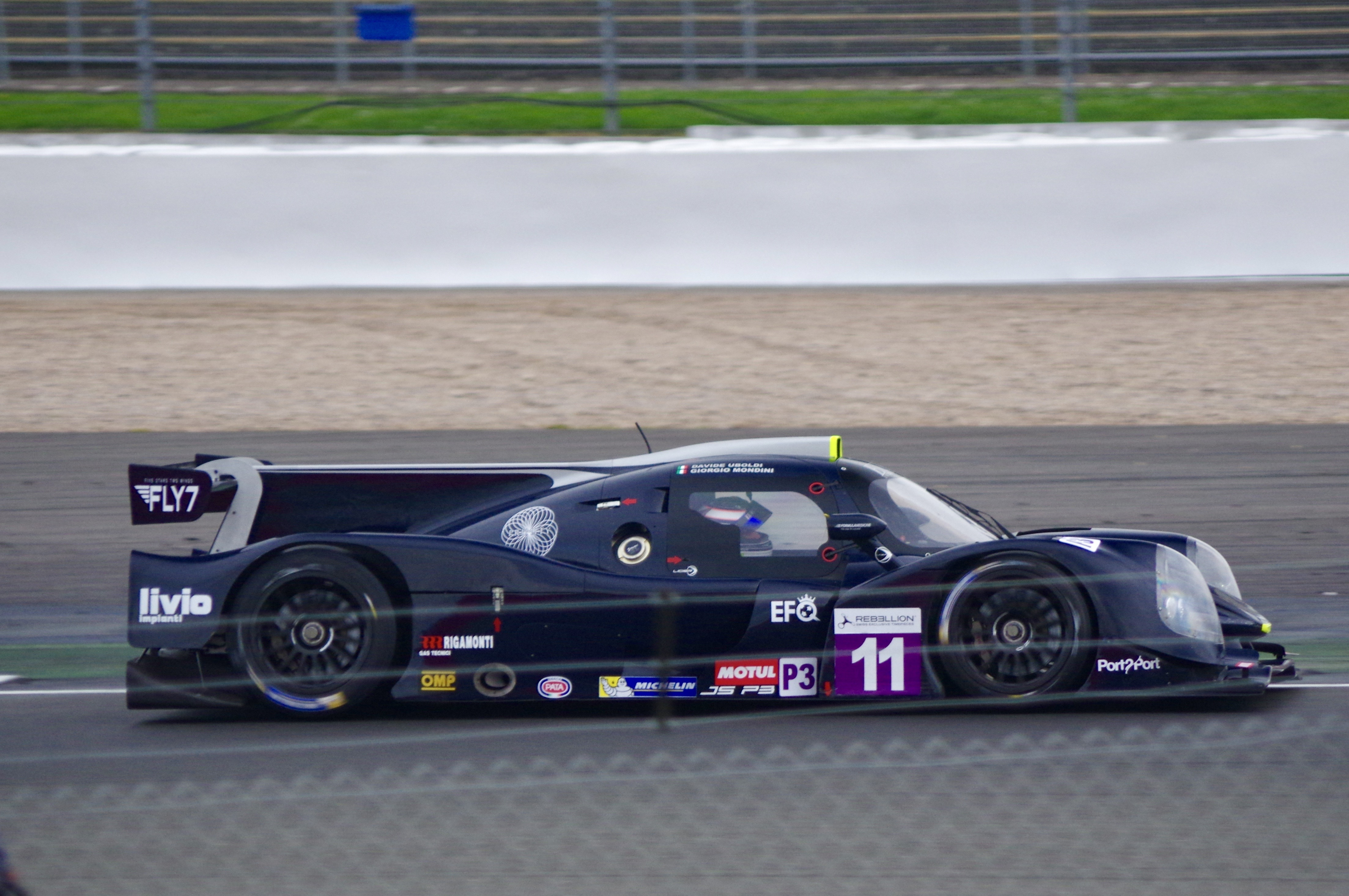 Eurointernational's Ligier JSP3 Nissan Driven by Giorgio Mondini and Davide Uboldi